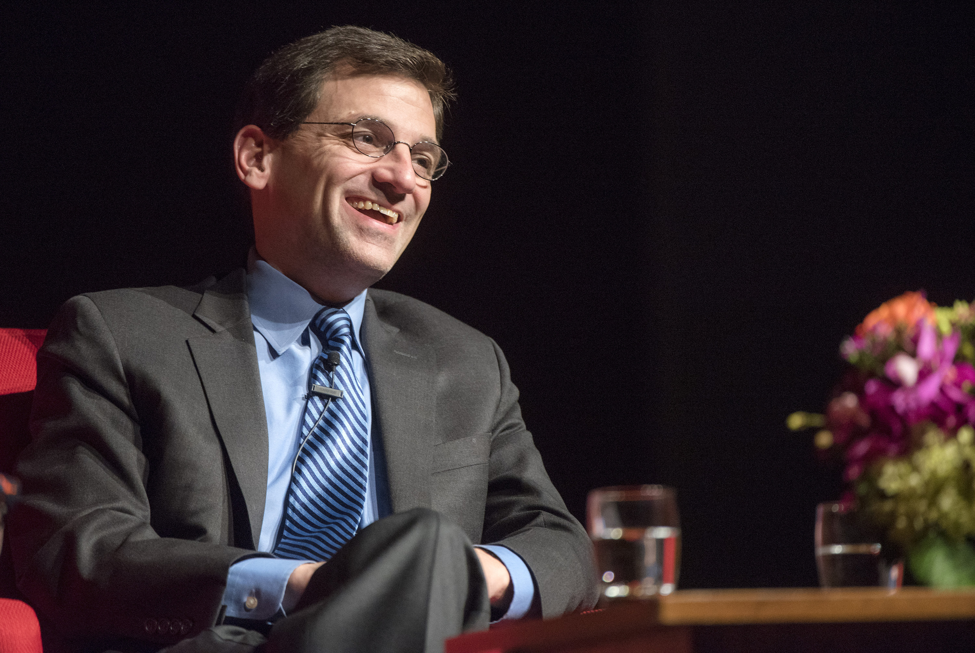 On Wednesday, Dec. 6th, 2017, the LBJ Presidential Library presented “An Evening with Peter Baker,” the chief White House correspondent for The New York Times.